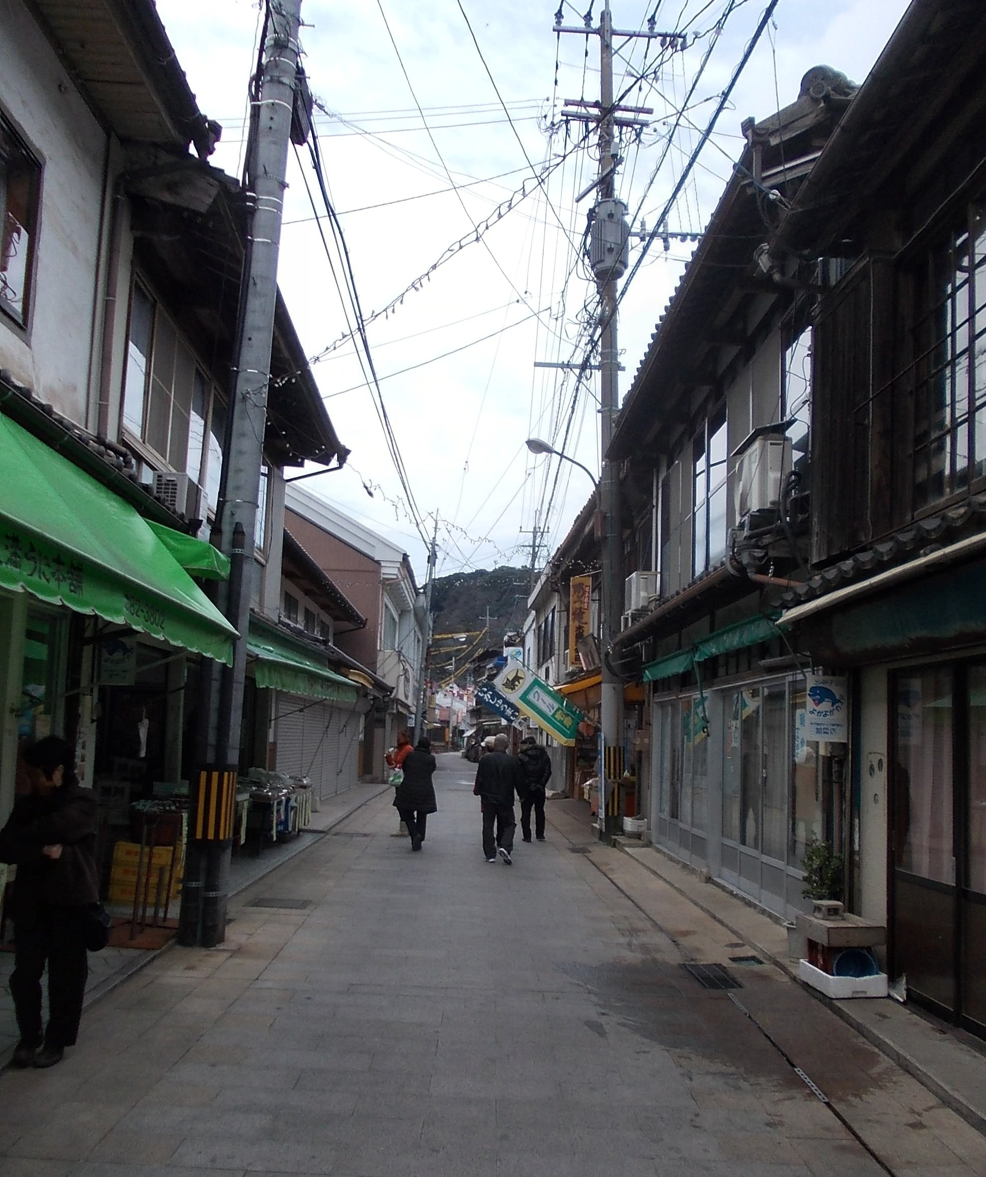 Yobuko Asaichi-dori shopping street